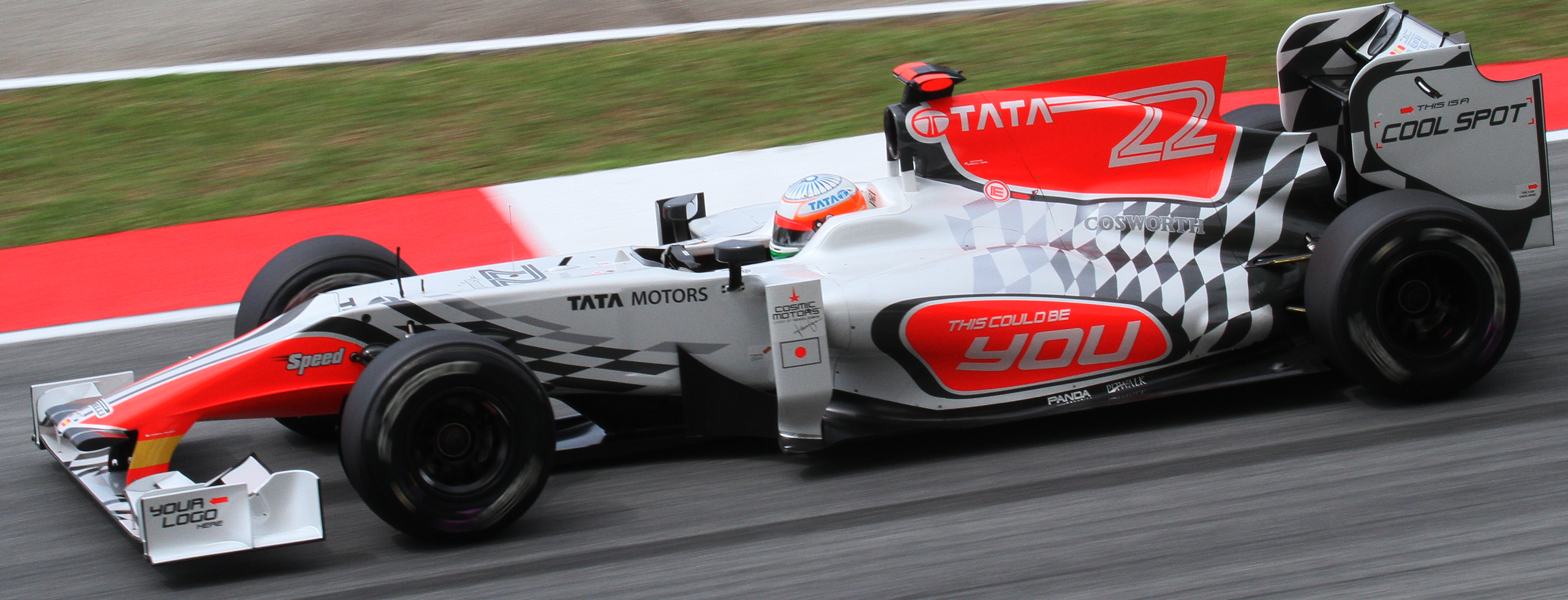 Formula One 2011 Rd.2 Malaysian GP: Narain Karthikeyan (HRT) during the first practice session on Friday.